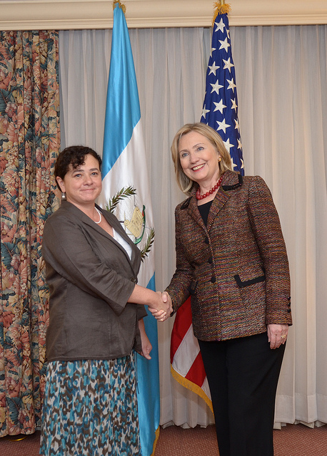 Attorney General of Guatemala and US Secretary of State